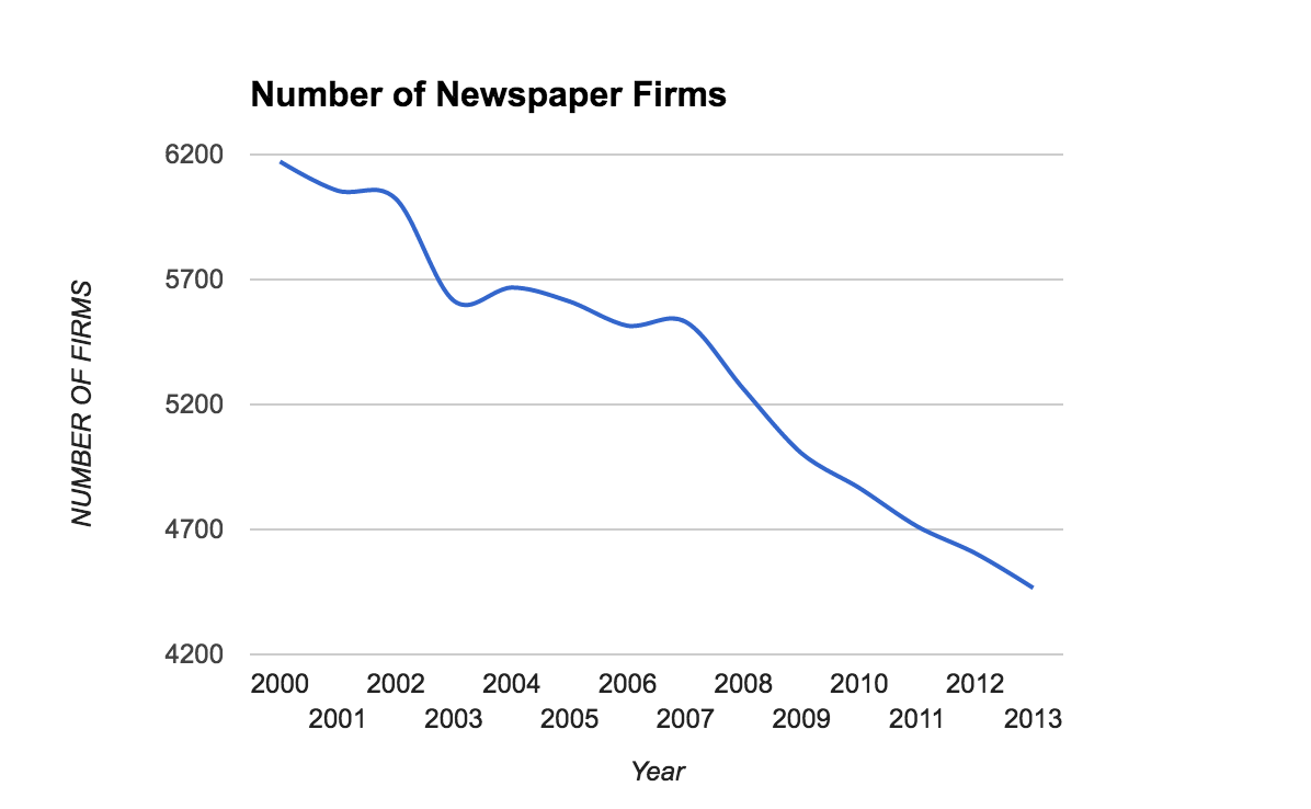 The number of newspaper firms between 2000-2014 as reported by the Census Bureau